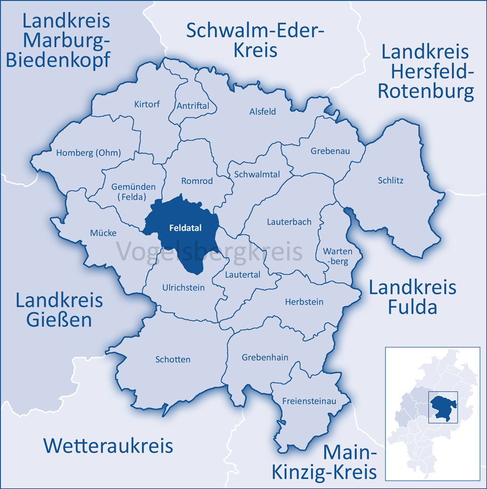 The map shows a district in the area of Vogelsbergkreis